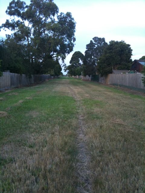 Syndal-Heatherton Pipe Reserve, looking north from north of Highbury Road, Burwood East, Victoria, Australia